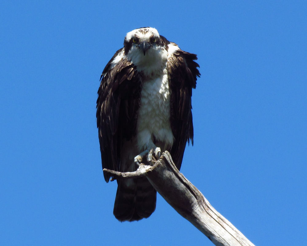 Osprey (Pandion haliaetus), adult, D.D. "Ding" Darling National Wildlife Refuge, Sanibel Island, Florida